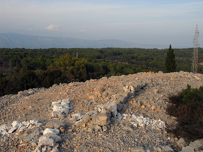 remains of the Illyrian hillfort on the hill Glavica near Stari Grad on island Hvar